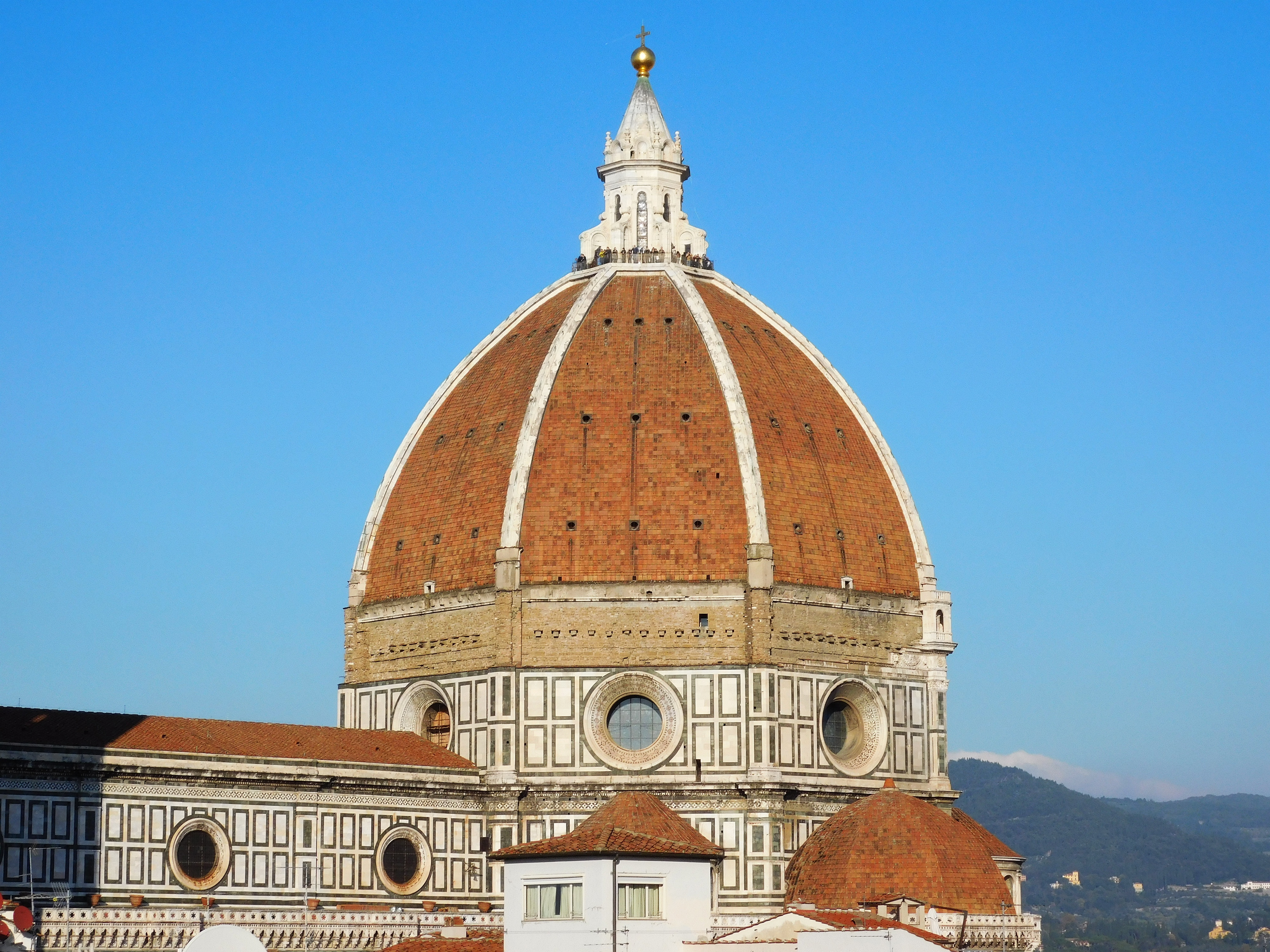 Florence, the Cathedral of Santa Maria del Fiore